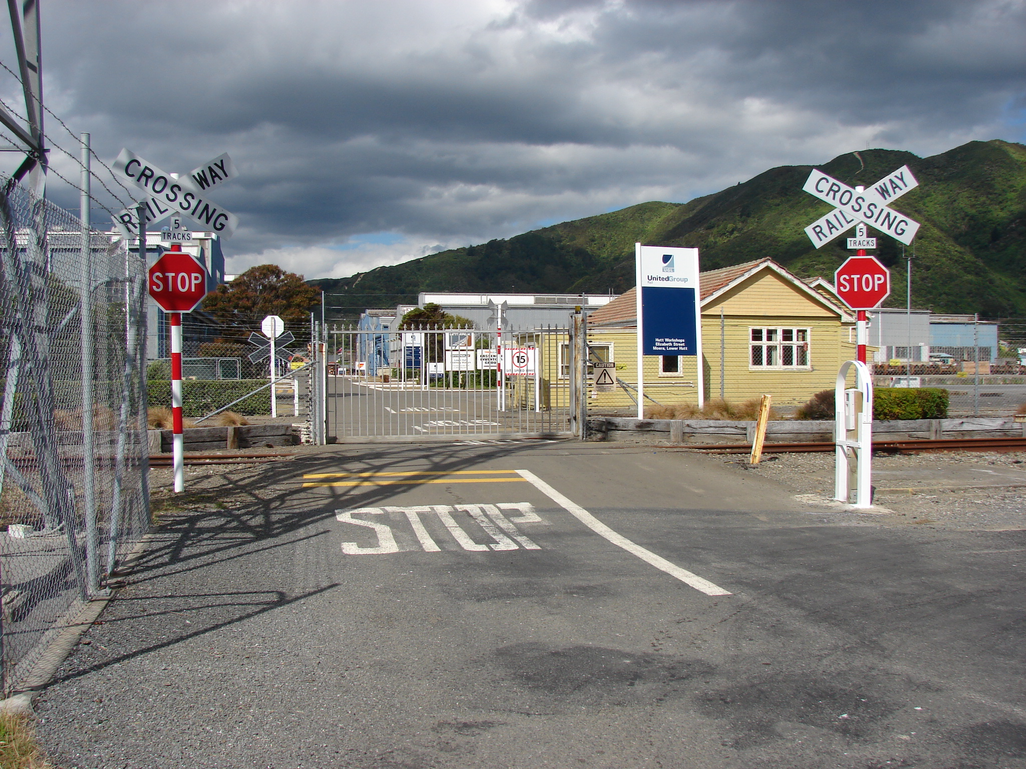 Hutt Workshops Elizabeth Street main entrance.